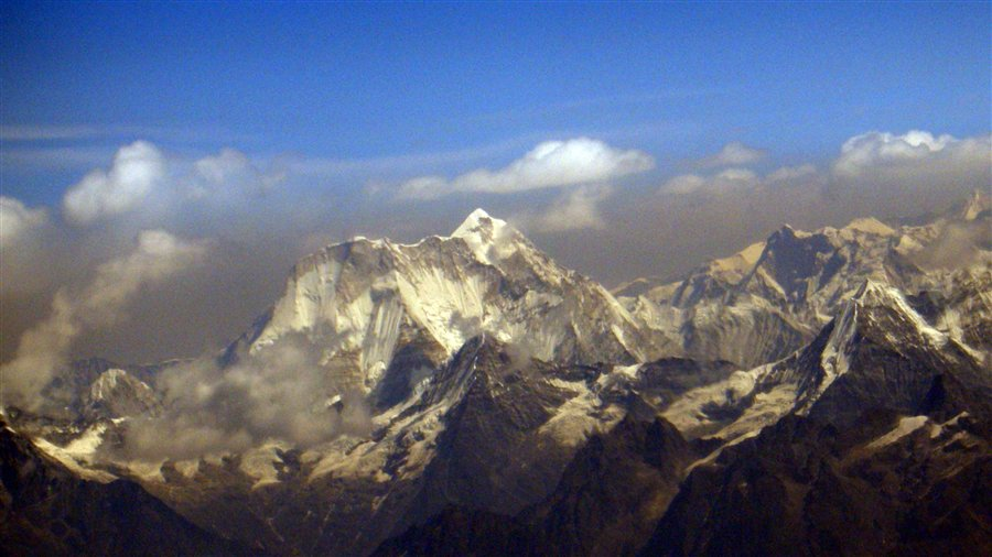 This is not Mount Everest but Melungtse in the Rolwaling Himal, quite a bit west of Everest